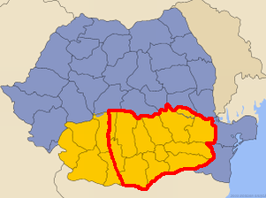 Wallachia and Greater Wallachia.